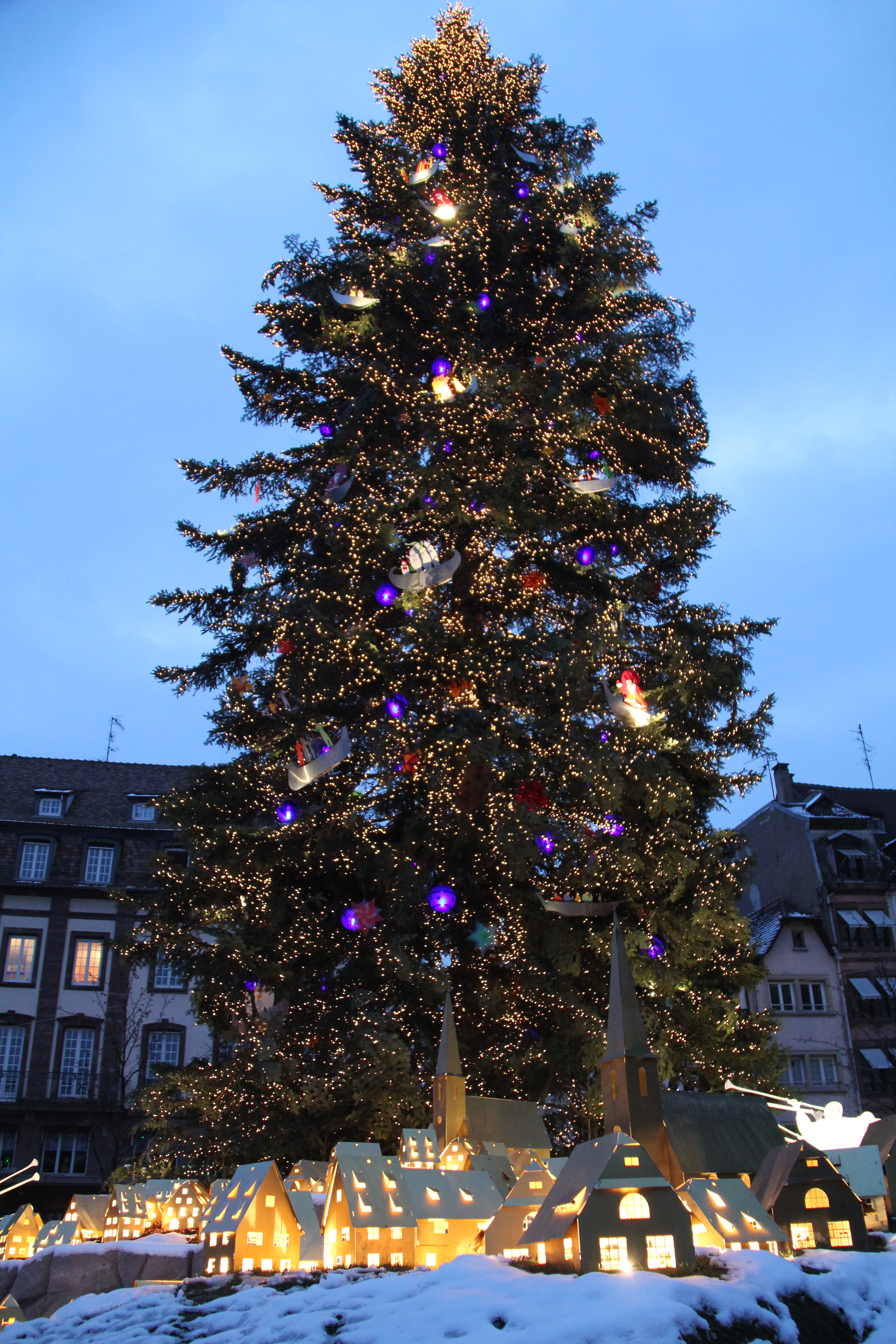 Strasbourg 2010 christmas tree with the thiny village